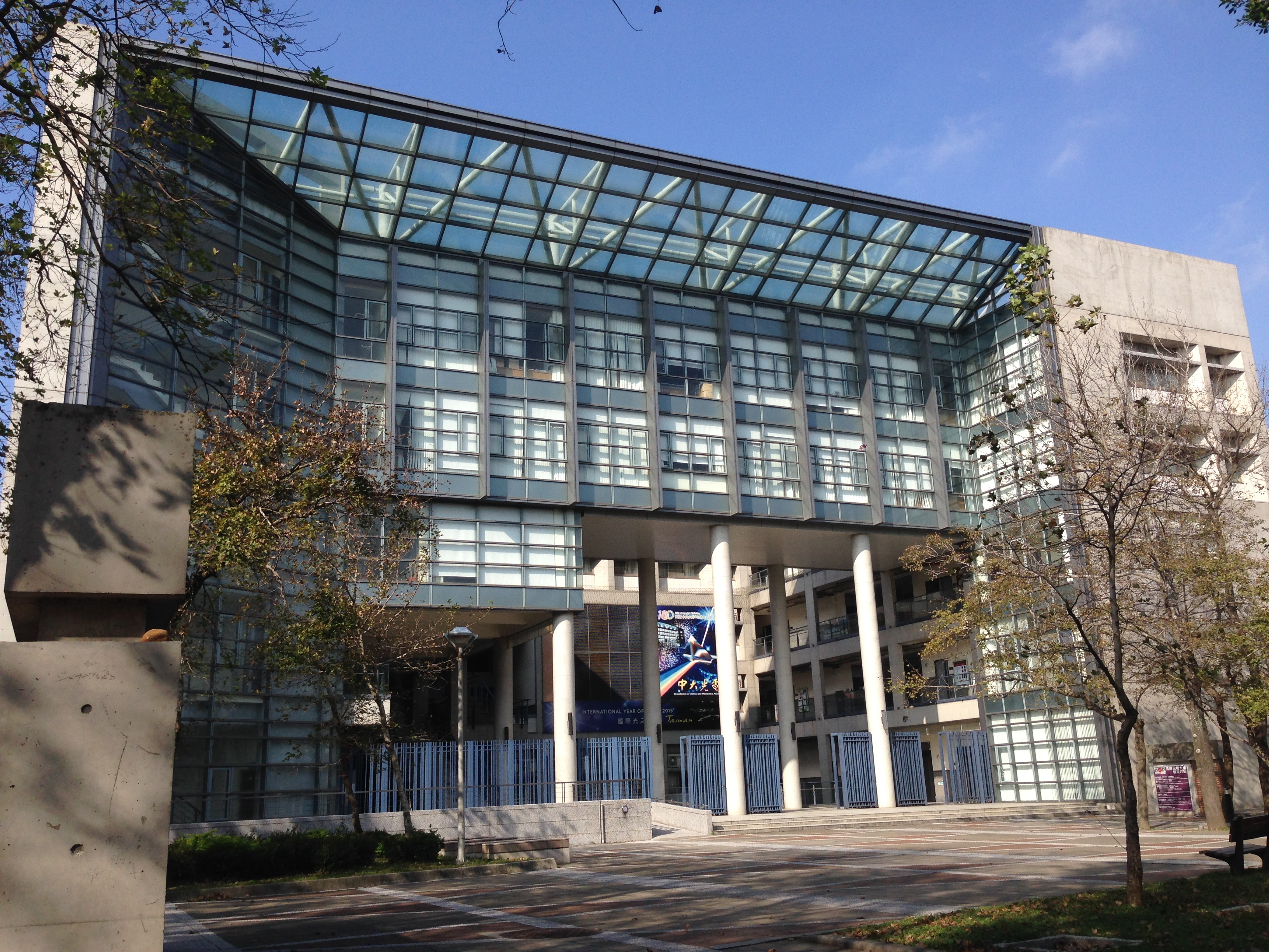 Kuo-Ting Optoelectronics Building